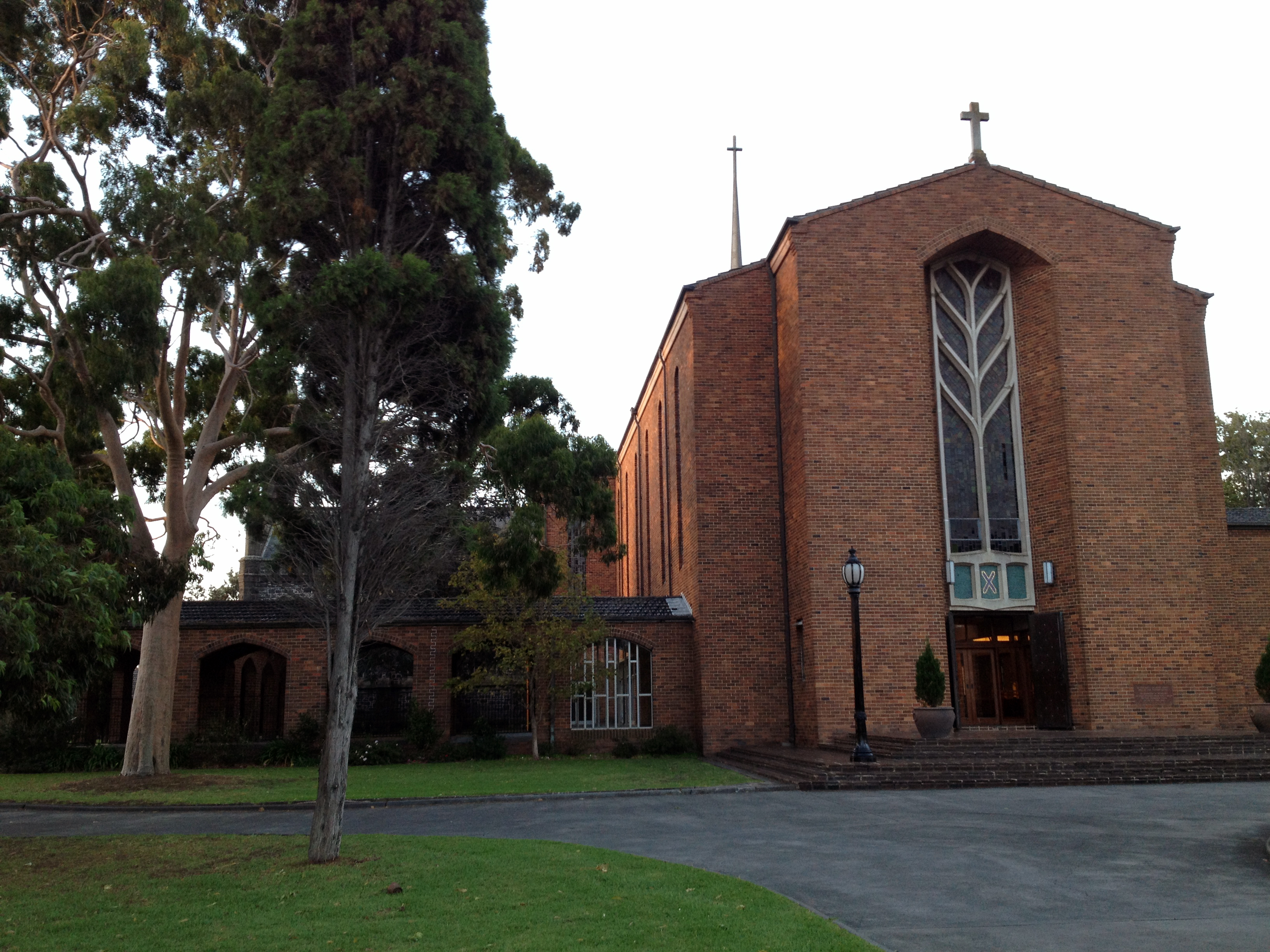 St Andrew's Church, Brighton, West Front